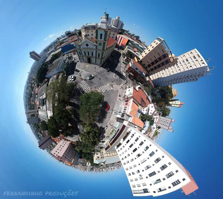 Penha